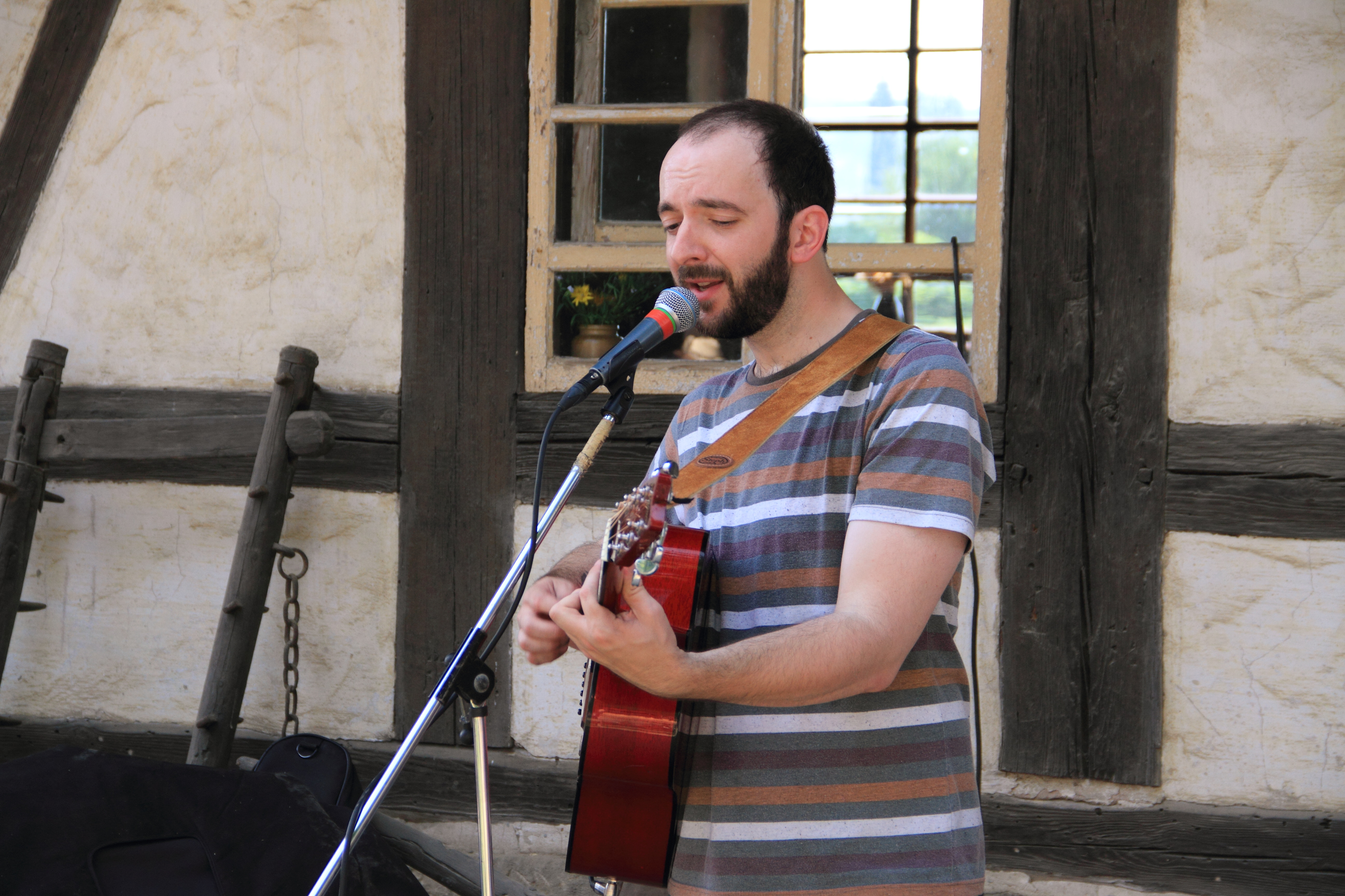 Sebastian Block plays as a street musician in the Freilichtmuseum Thüringer Bauernhäuser at TFF Rudolstadt 2015.